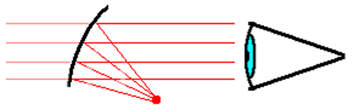 Diagram of "red dot" type of Reflector sight. It uses a collimating partially silvered mirror to create a virtual image of a light-emitting diode at infinity.